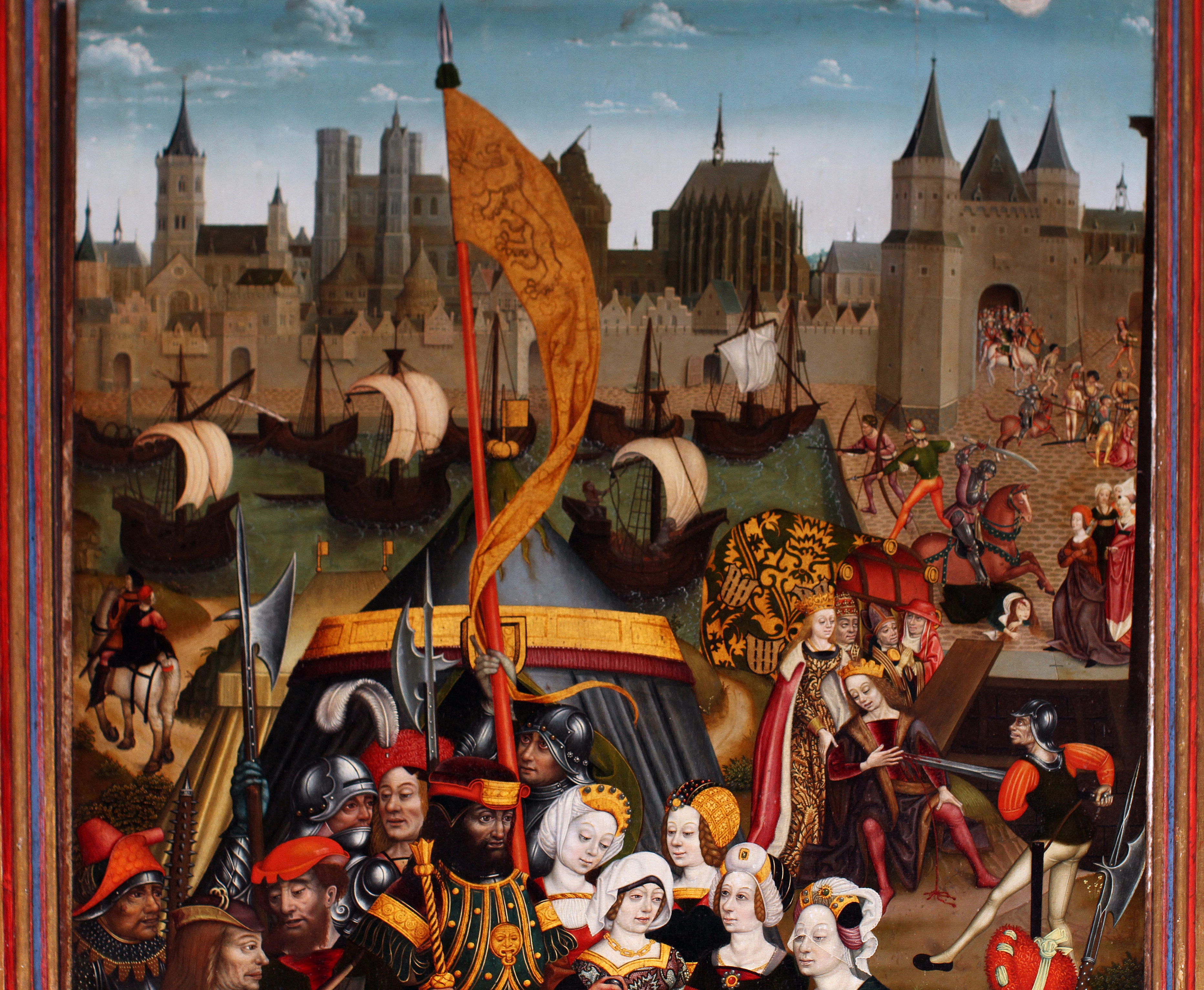 Church of Saint Nicholas (Part of the altarpiece top right), Kalkar, in North Rhine-Westphalia, Germany